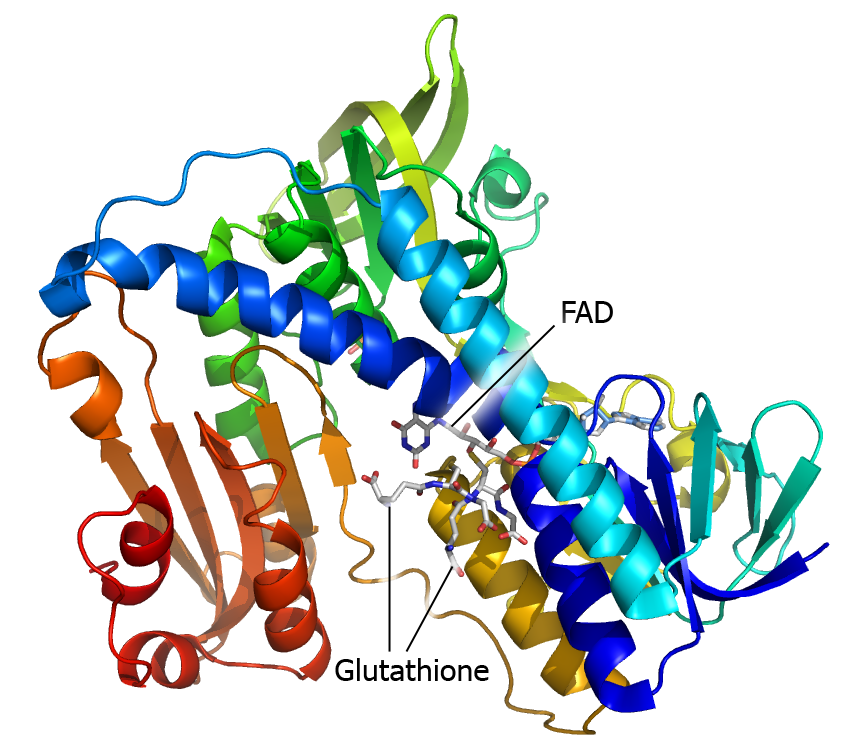 Cartoon representation of the atomic structure of Glutathione Reductase, based on PDB ID: 1GRE